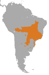 Maned Wolf (Chrysocyon brachyurus) range